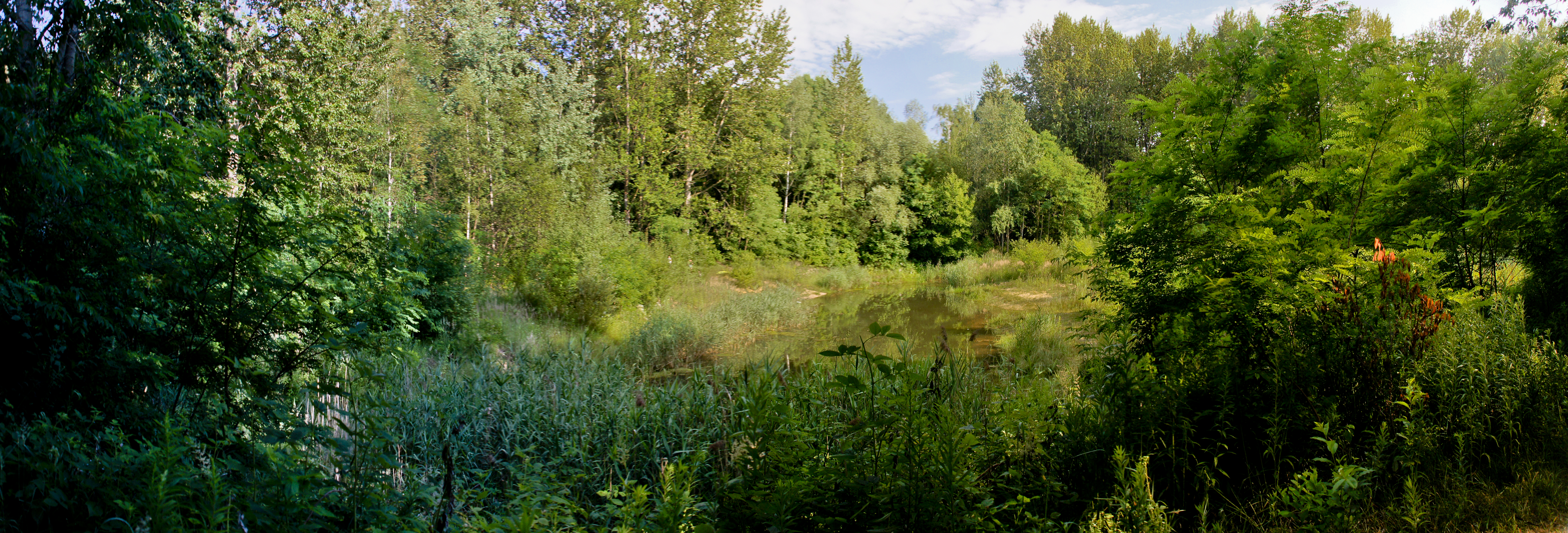 Panorama of wild pond in Millennium Park in Sosnowiec